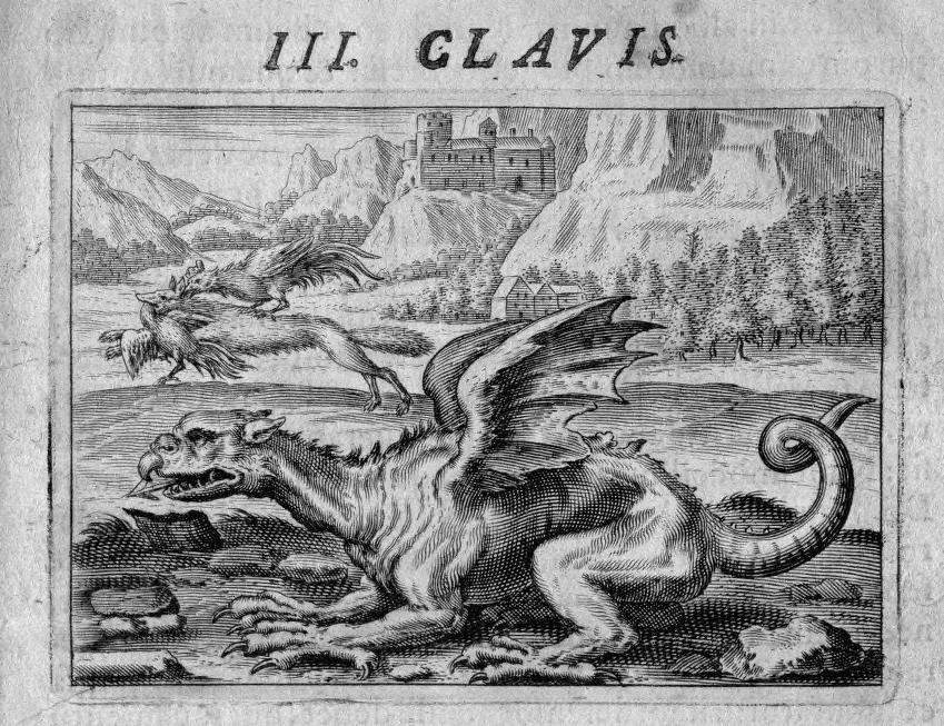 Print from the Twelve Keys of Basilius Valentinus. Picture for the Third key.